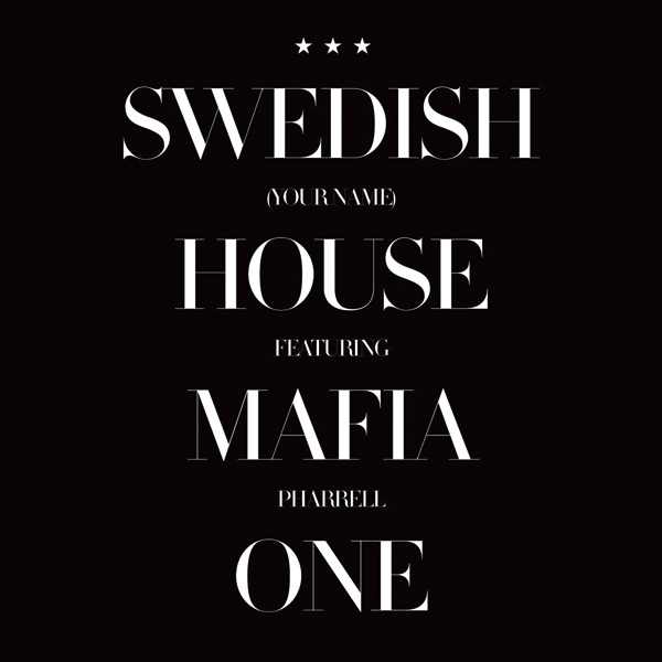 Single sleeve of "One (Your Love)" by Swedish House Mafia featuring Pharrell